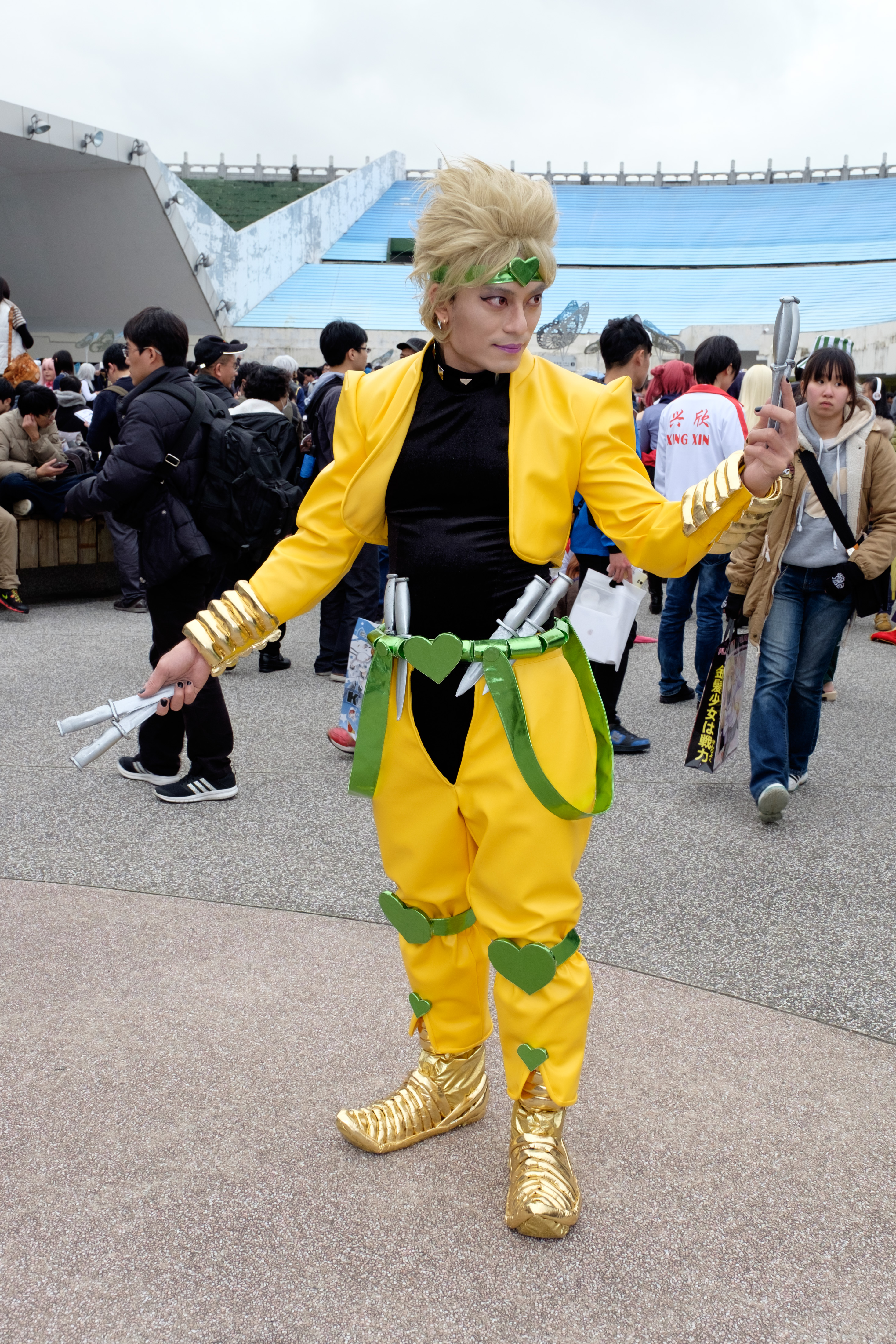 中文（台灣）: Fancy Frontier 27第一日下午，＜ジョジョの奇妙な冒険＞第三部迪奧cosplayer。